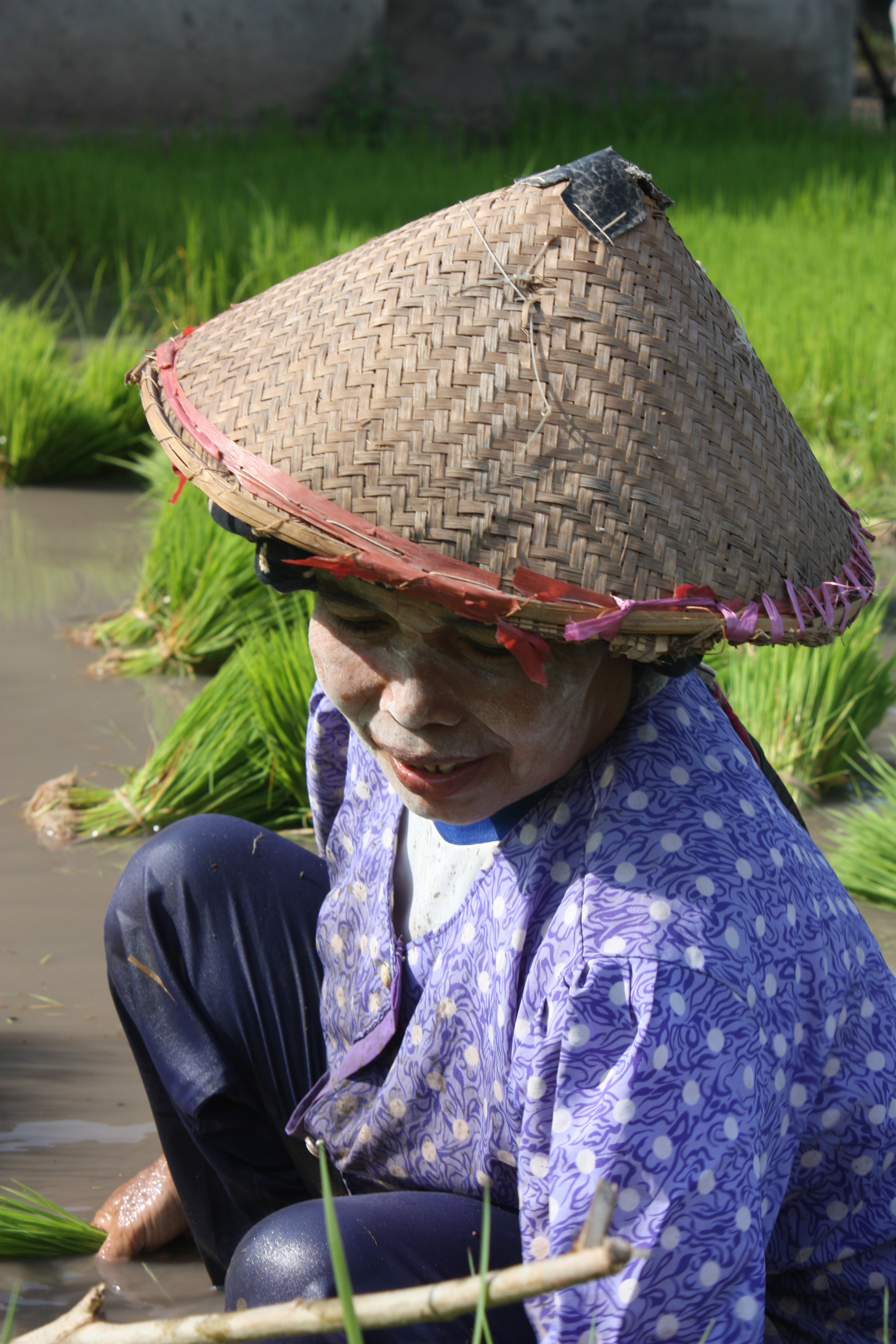 Bantaeng, lady working in a rice field